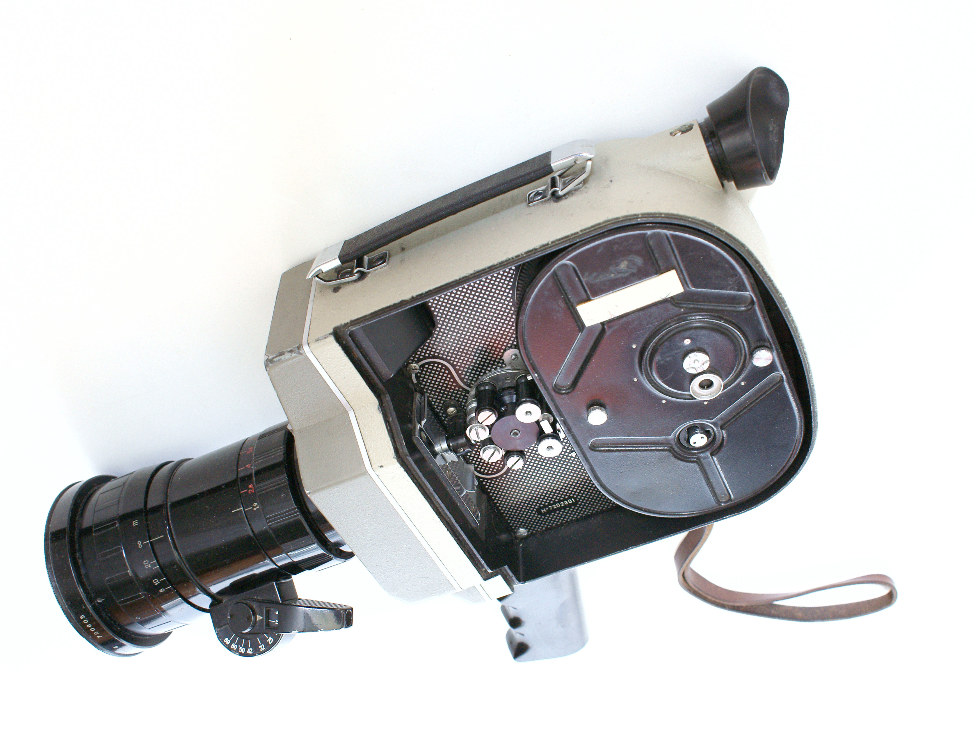 Inner chamber of soviet 16-mm movie camera Krasnogorsk-2 with cassette.